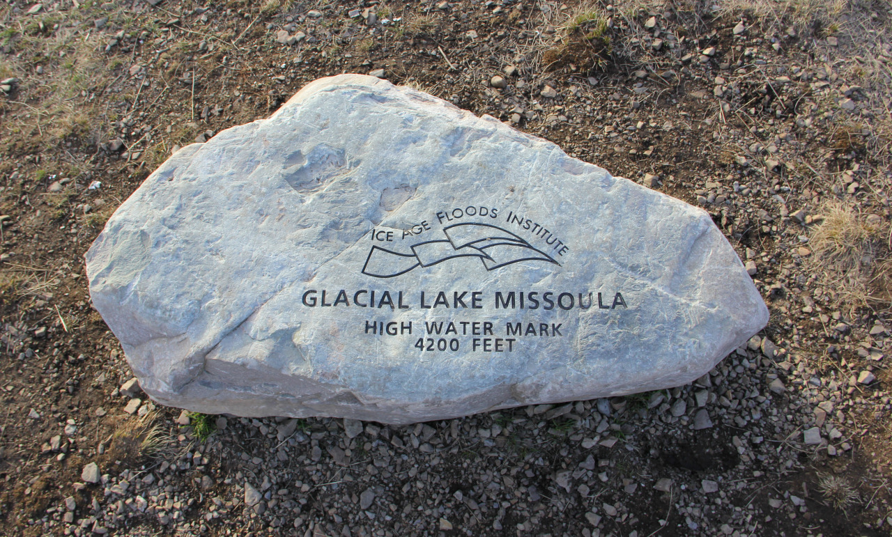 High water marker, Glacial Lake Missoula, Mount Sentinel, Missoula, Montana, 4 March 2016